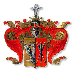 COA Welyaminov